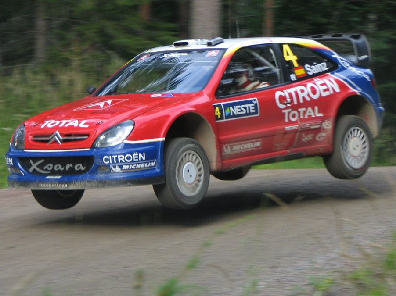 Carlos Sainz driving his Citroën Xsara WRC at the 2004 Rally Finland.